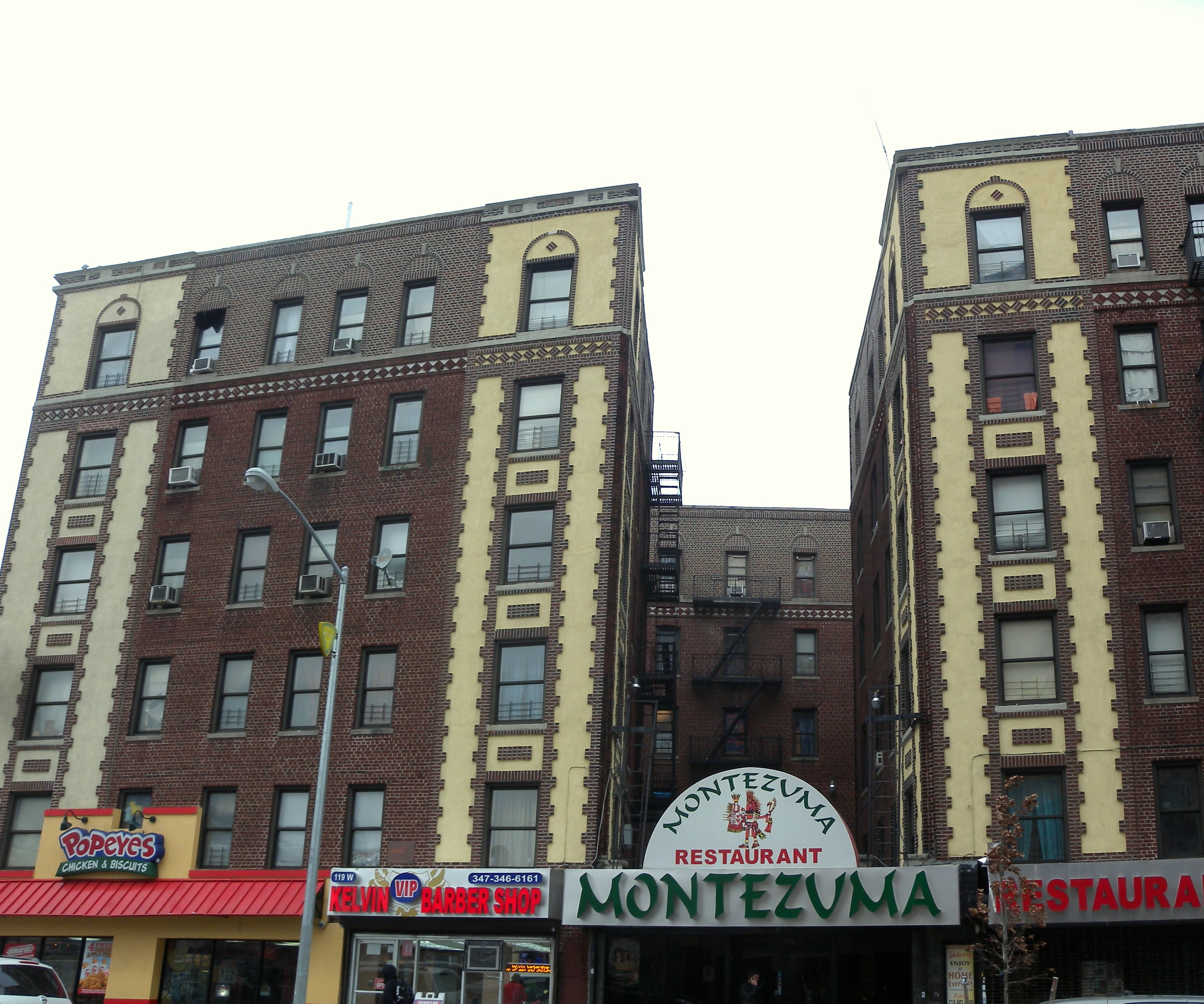 Looking north across Kingsbridge Road at an apartment house and restaurant on a cloudy midday.